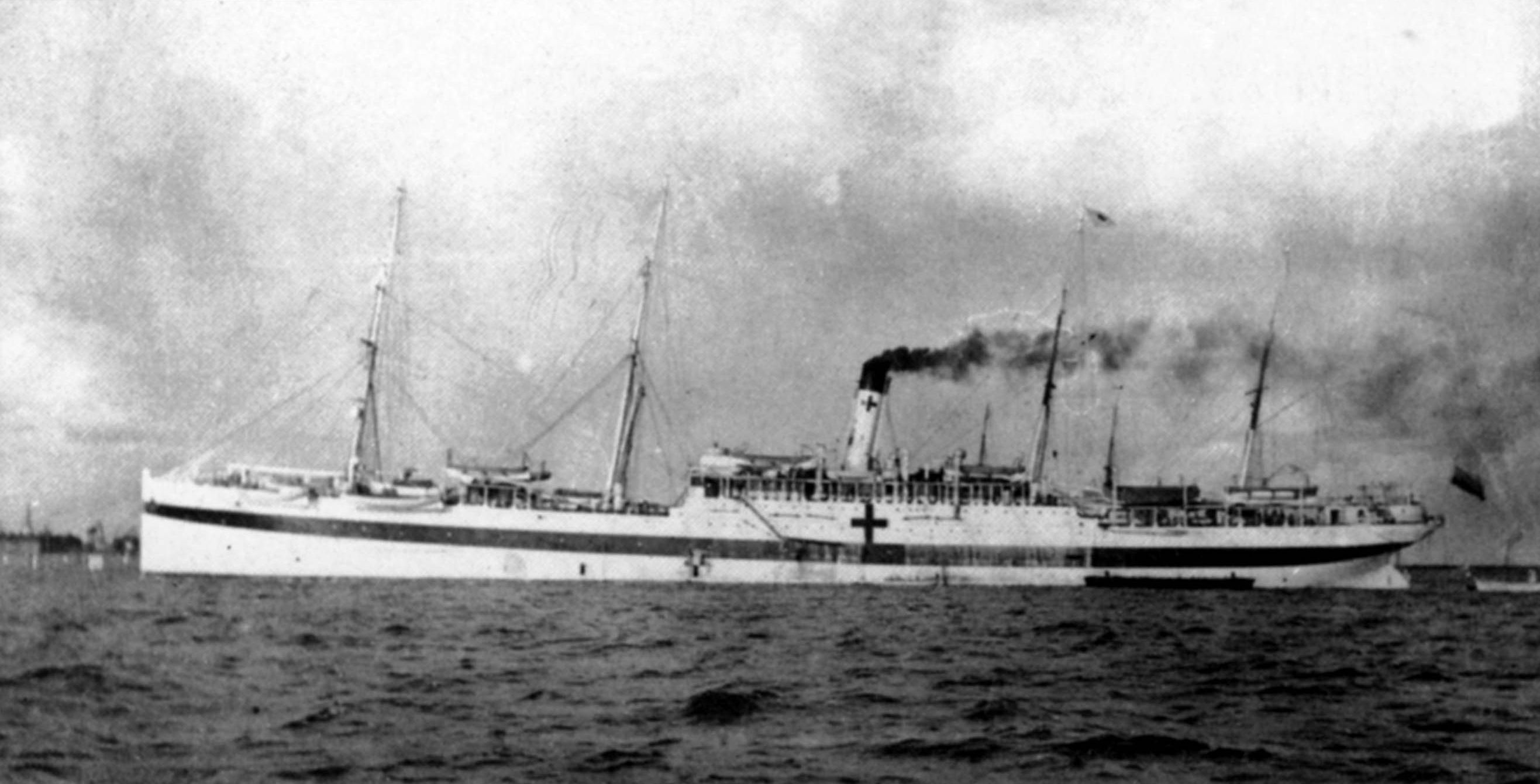 Hospital ship Nikolaev